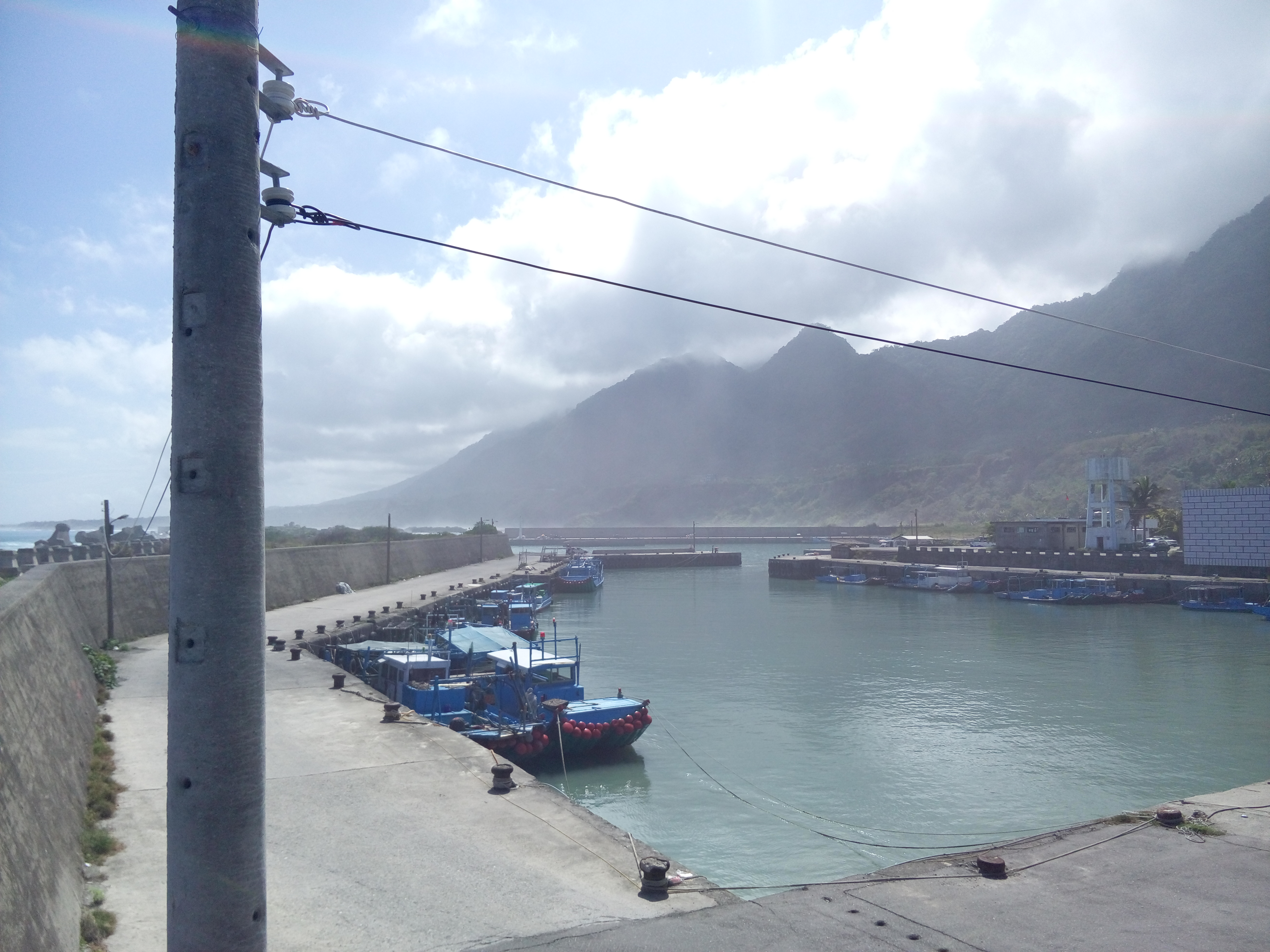 Taiwan(R.O.C)Taitung County Jinzun Fish Harbor